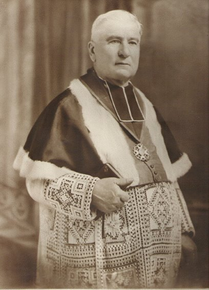 A French canon in Roman Catholic choir dress.